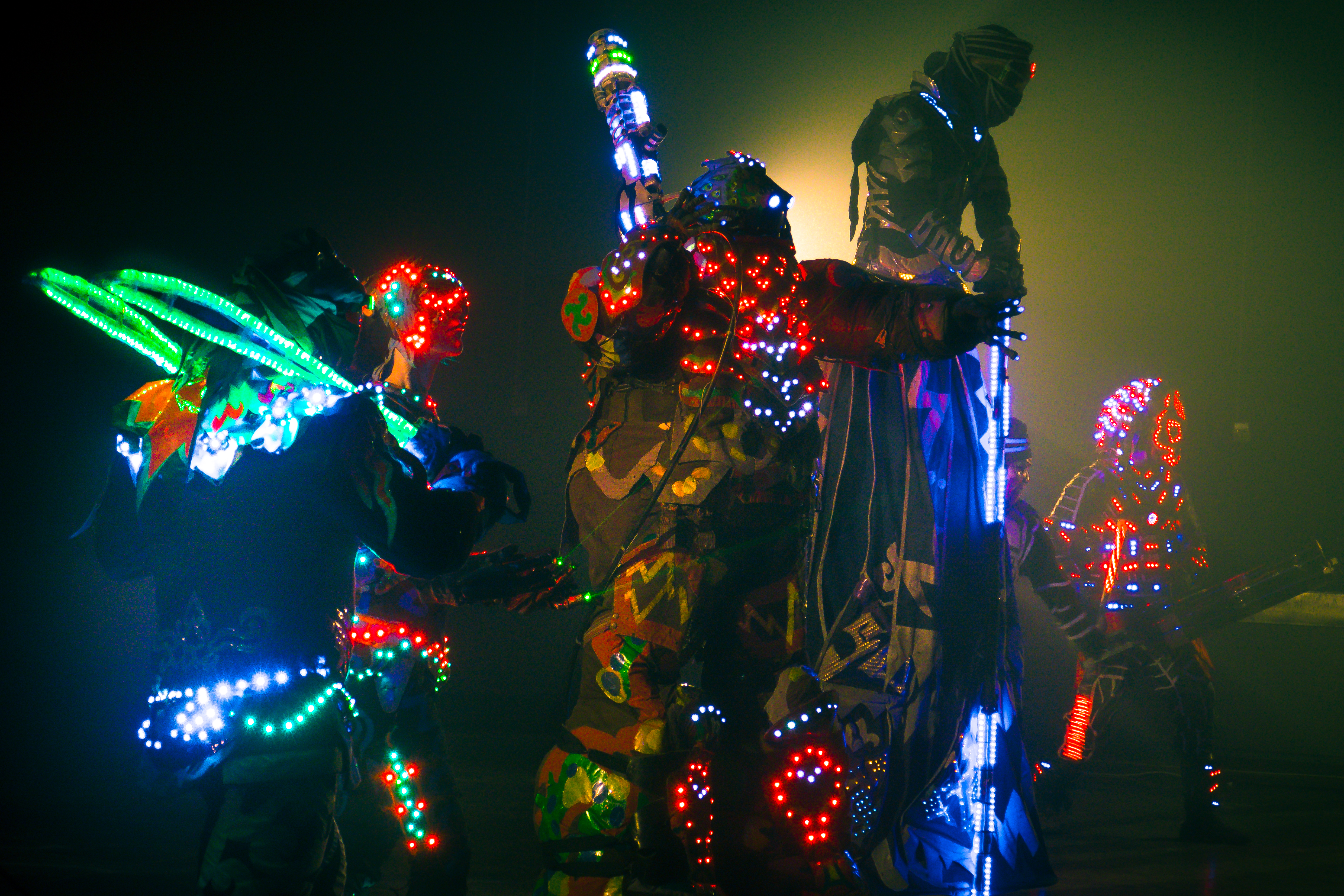 Agnivo on Juno Reactor's music video shooting in Moscow in autumn 2017 shot by Sanja Karin Music.